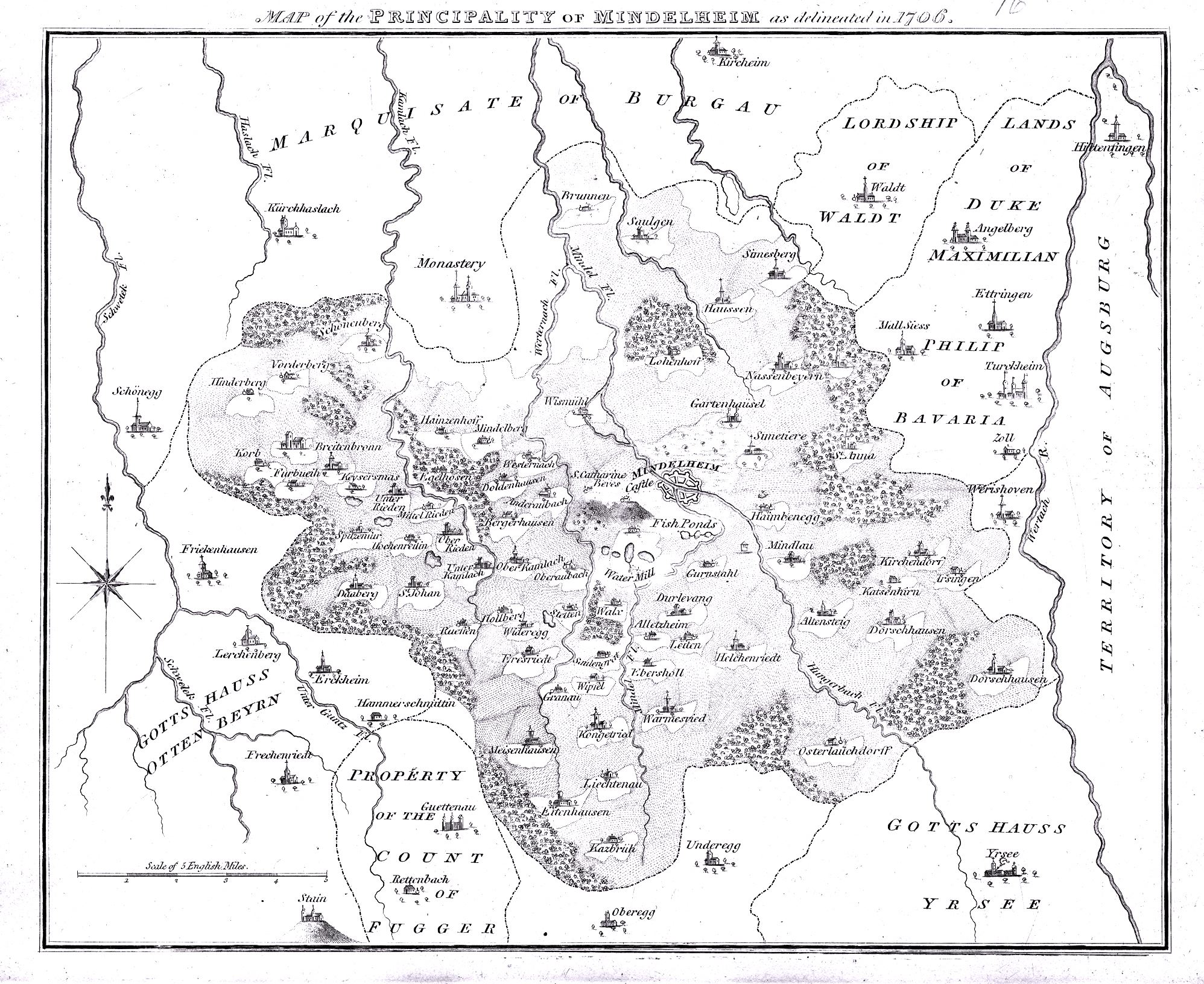 A map of the Principality of Mindelheim (Bavaria, Germany), "as delineated in 1706", scanned from the atlas volume of Memoirs of the Duke of Marlborough by William Coxe, published in 1819.